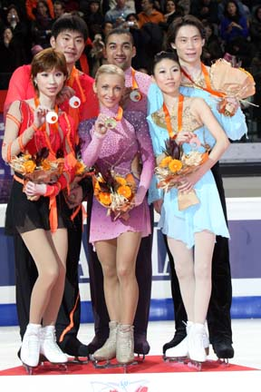 The pairs podium at the 2007-2008 ISU Grand Prix Final. From left: Zhang Dan / Zhang Hao (2nd), Aliona Savchenko / Robin Szolkowy (1st), Pang Qing / Tong Jian (3rd).